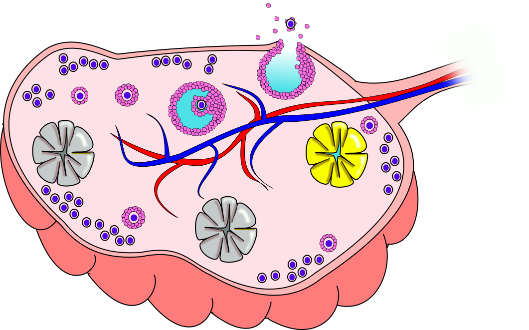 unlabeled cartoon of a human ovary